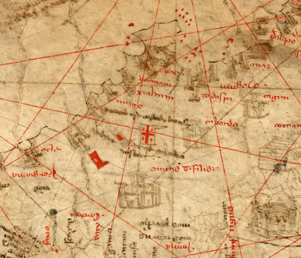 Cropped area of The 1367 chart of the Pizzigani brothers, showing "five-cross flag" over Tbilisi.